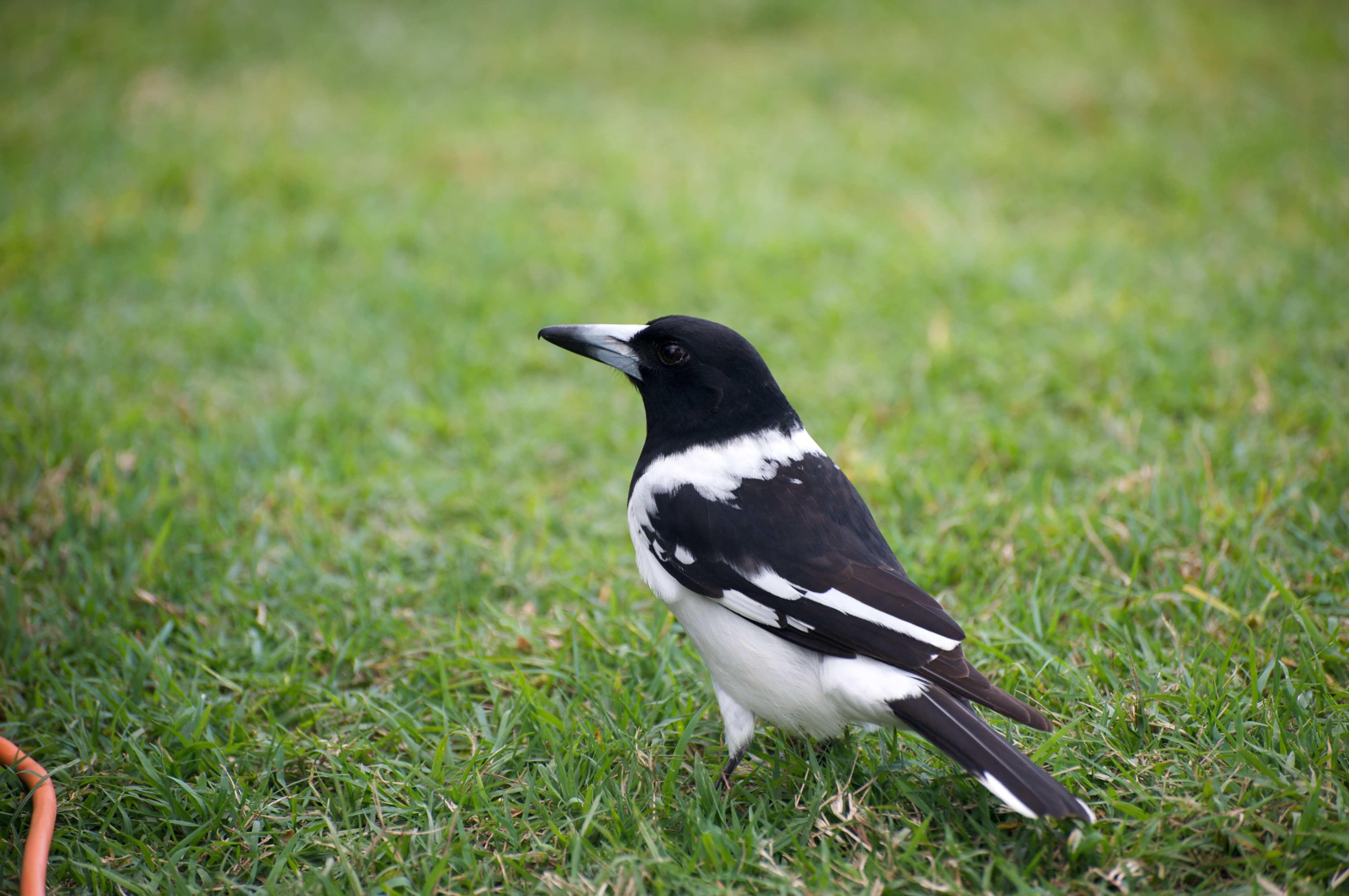 Pied Butcherbird in Queensland, Australia.